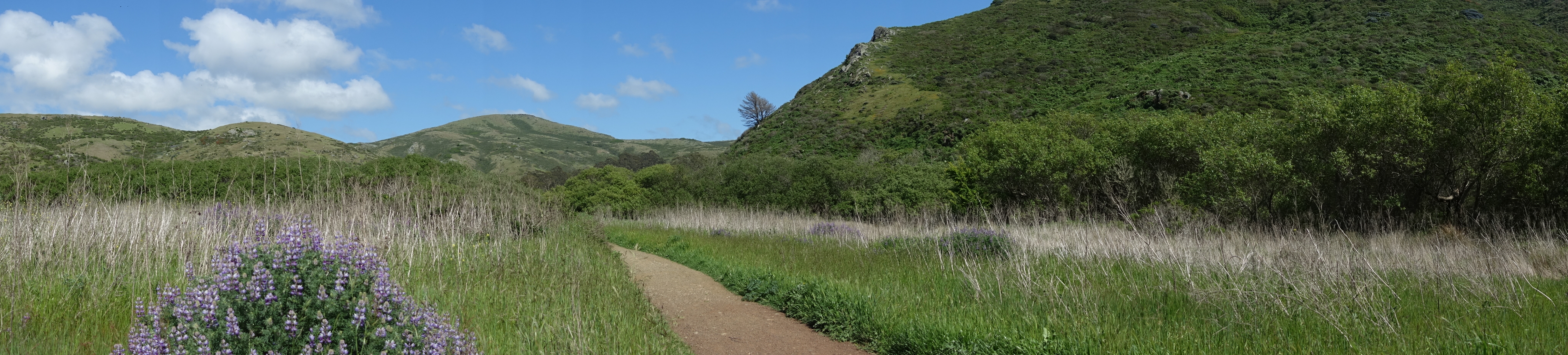 Tennessee Valley, California, facing east.